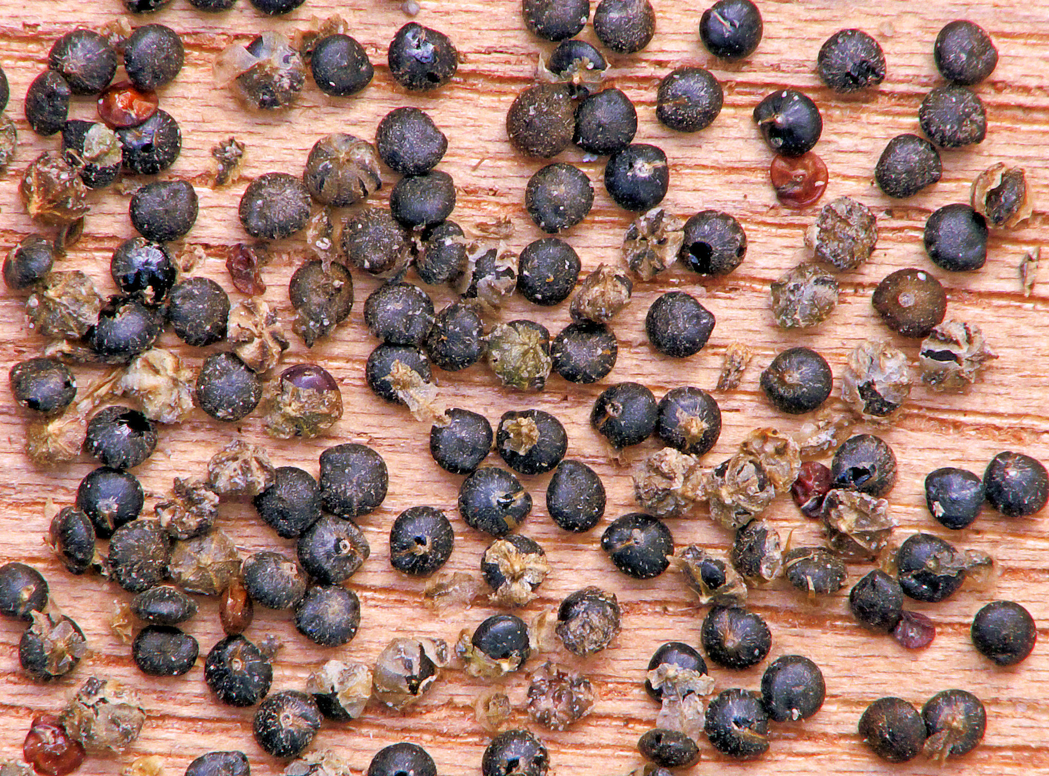 Chenopodium album seeds, size:1,5 mm